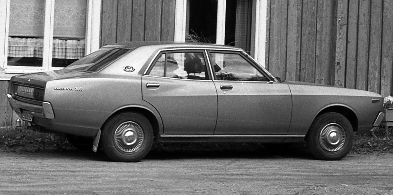 A C130-series Datsun 200L (Laurel) in Trondheim, Norway.